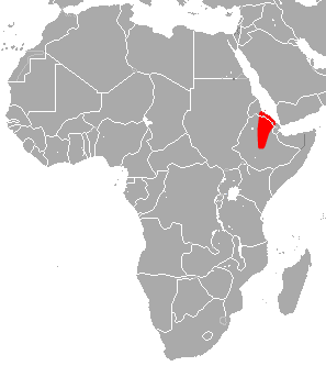 Patrizi's Trident Leaf-nosed Bat (Asellia patrizii) range